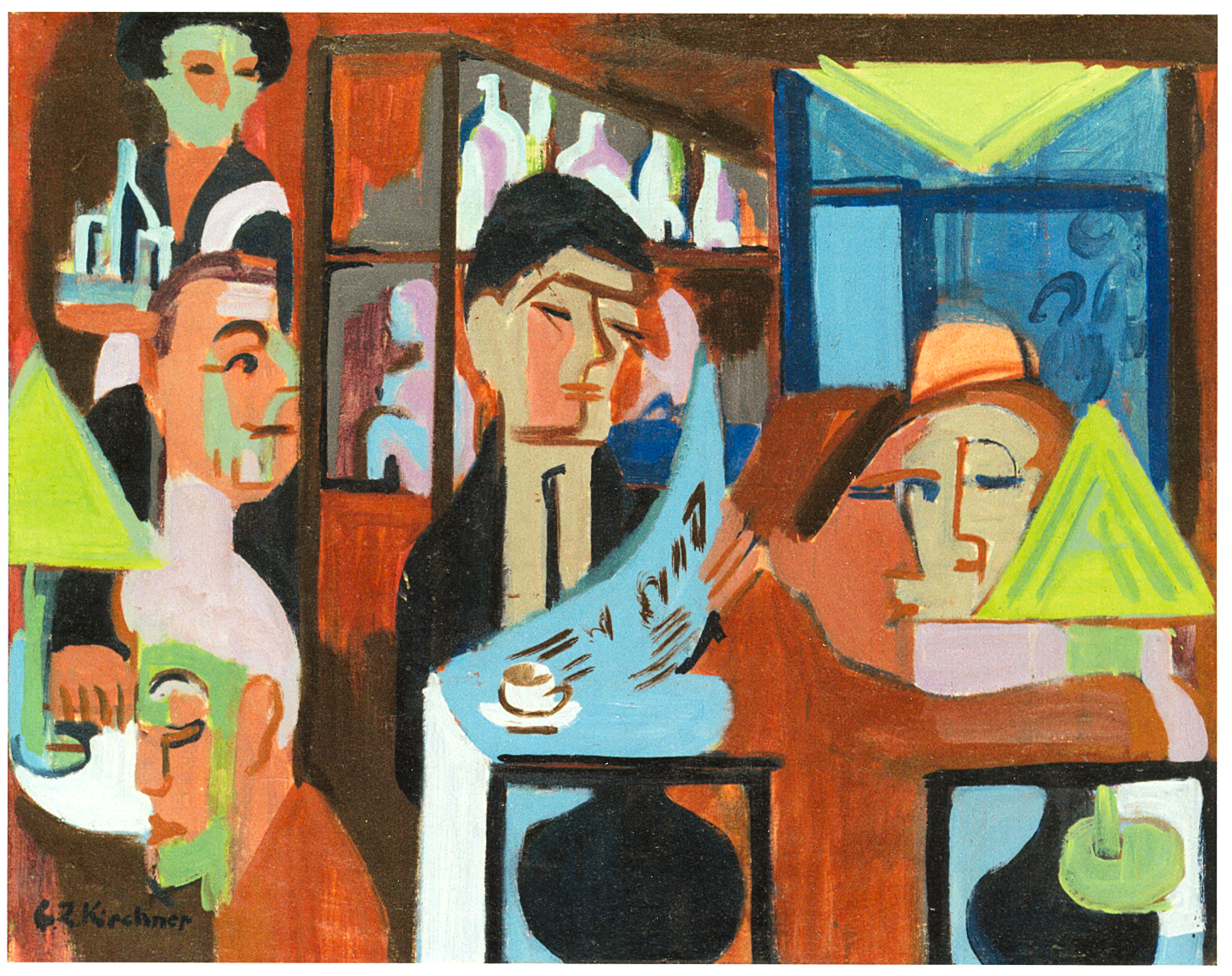 Cafe in Davos - Oil on canvas - 72 x 92 cm - Museumslandschaft Hessen, Kassel